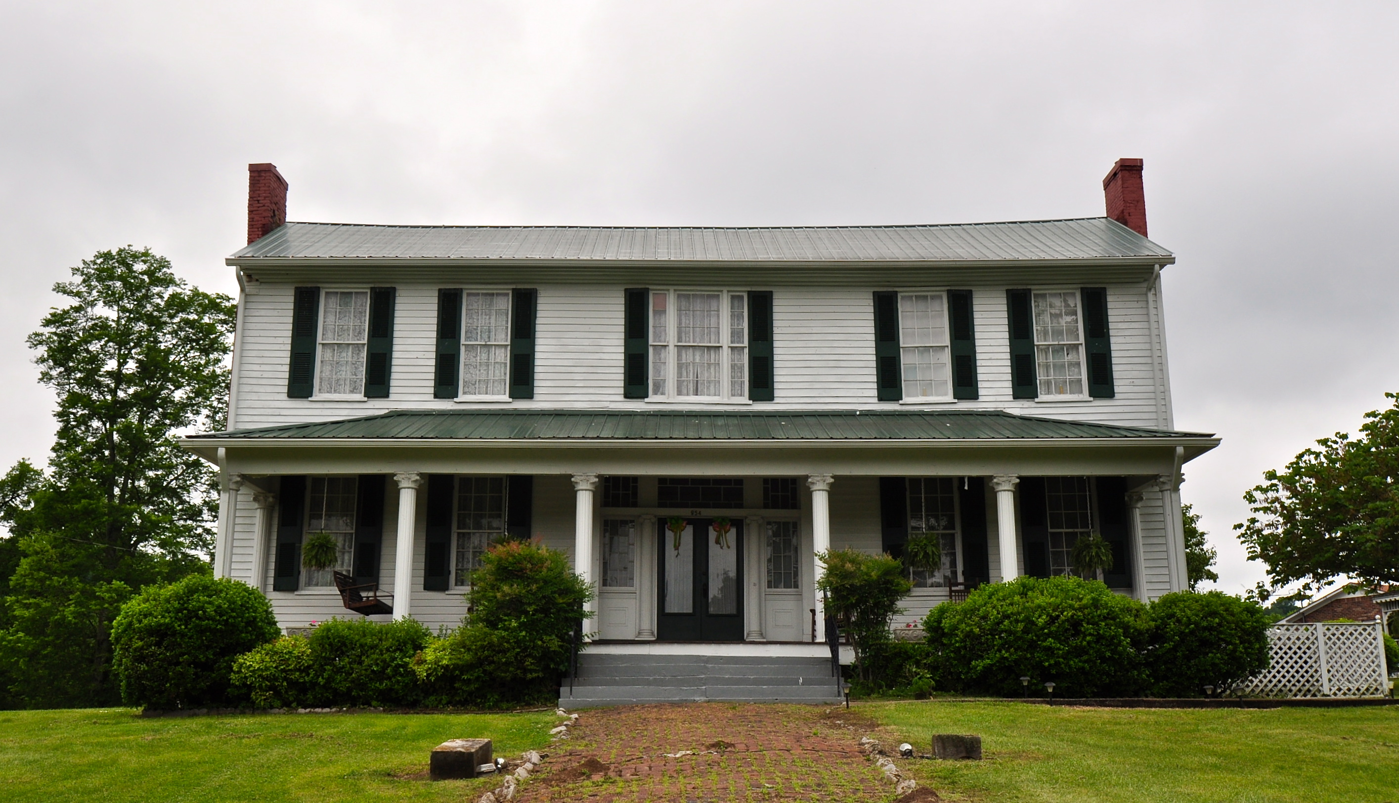 Located at Pulaski, Giles County, Tennessee. NRHP #10000085, listed March 17, 2010.